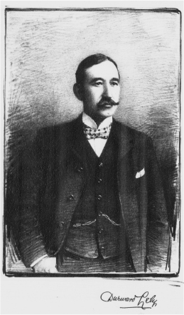 Image of Durward Lely